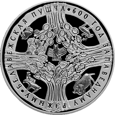 Environmental protection. Commemorative coins "Belovezhskaya Pushcha. zapavednamu 600 Year of the regime" (Bialowieza Forest. 600 years protected regime ")